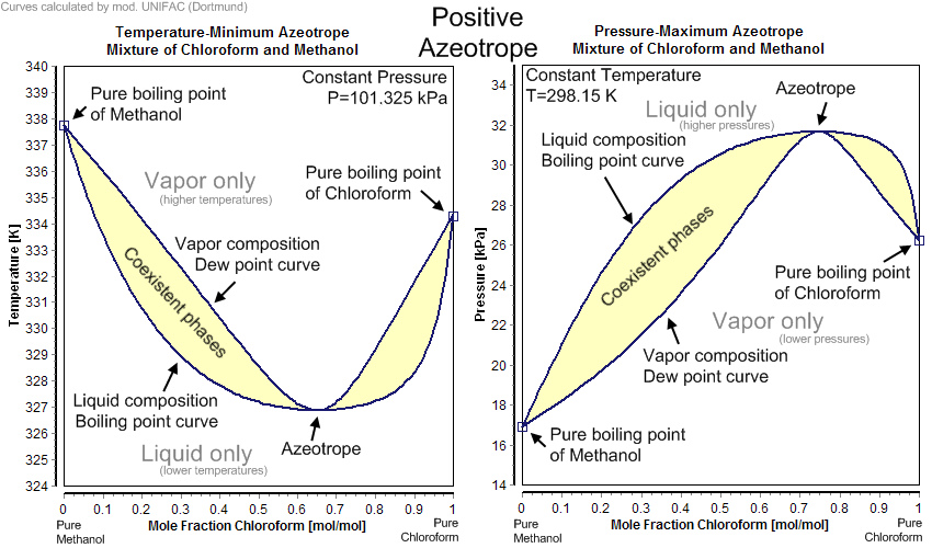 Positive azeotrope of Chloroform and Methanol. Calculated with modified UNIFAC (Dortmund).